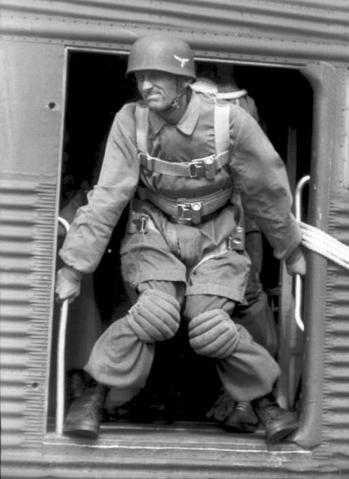 Title: Frankreich, Fallschirmjäger vor Absprung (Übung?) Extra information: Frankreich.- Fallschirmjäger kurz vor Absprung aus Flugzeug (Übung?); PK Fs AOK Factual corrections and alternative descriptions are encouraged separately from the original description. Additionally errors can be reported at this page to inform the Bundesarchiv. Original historic description